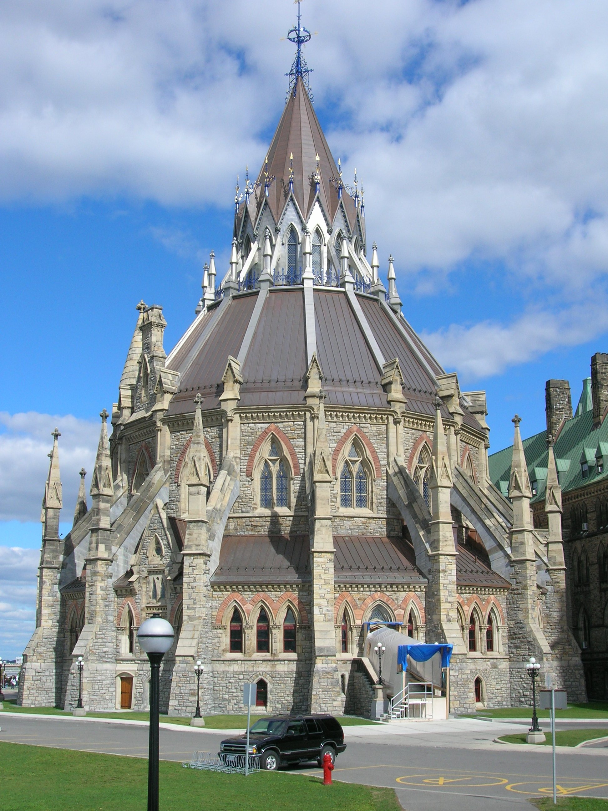 Library of Parliament, Ottawa, Canada